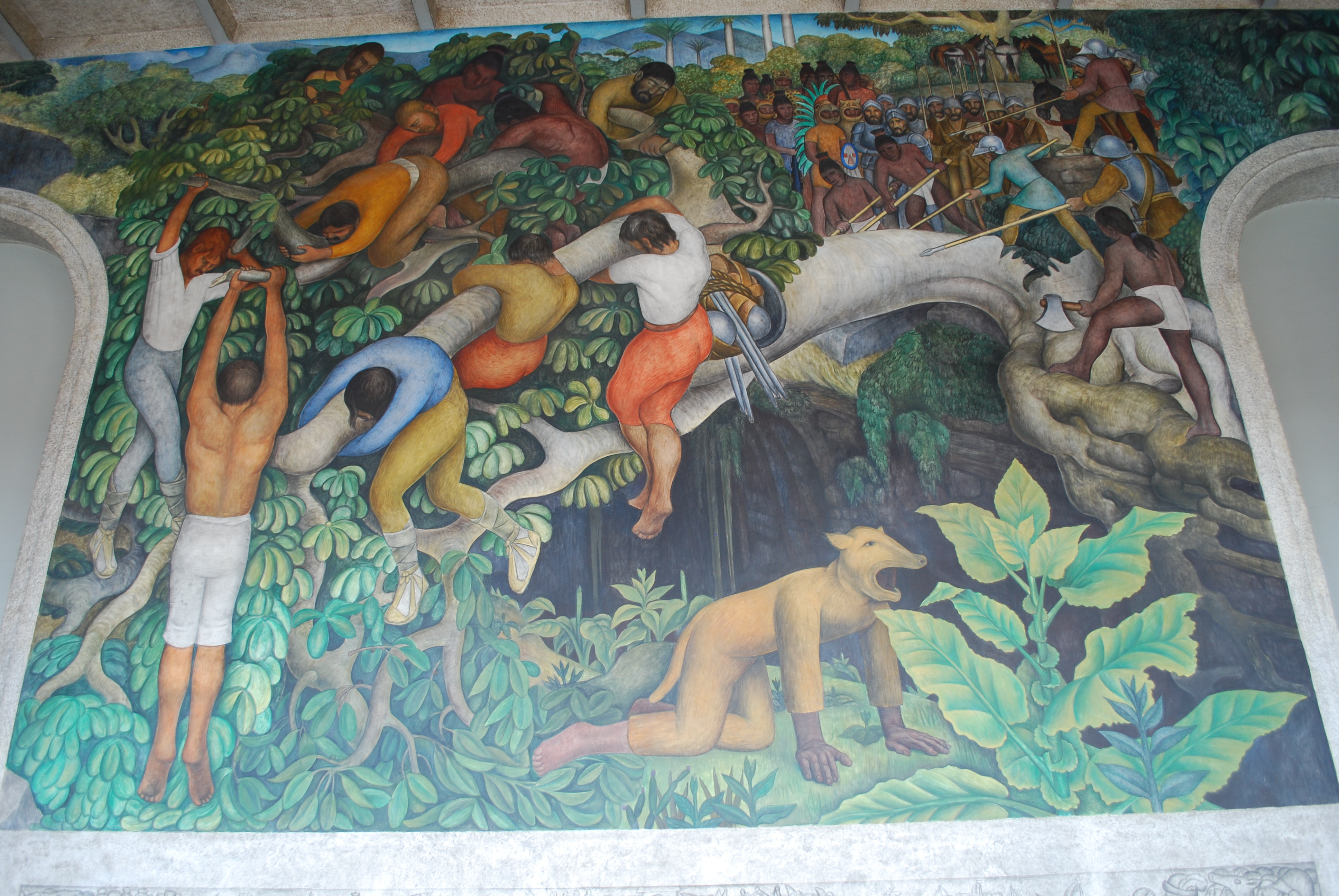 Section of the mural painted by Diego Rivera on the back porch of the Palace of Cortes in Cuernavaca, Mexico